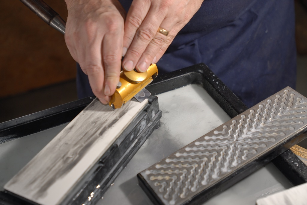 Side Sharpening demonstration